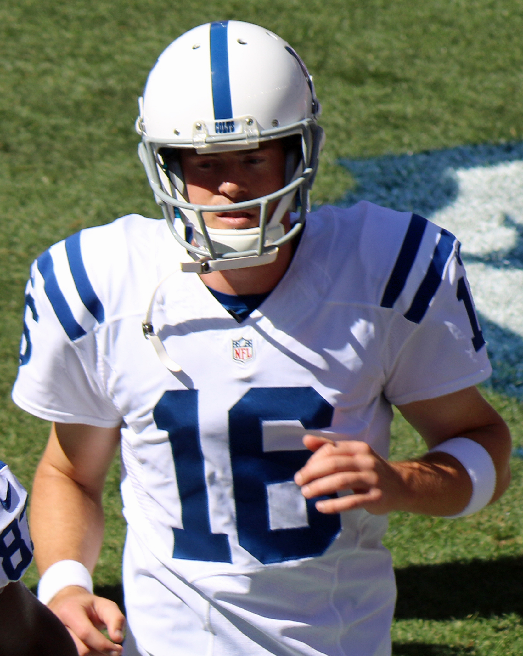 Scott Tolzien, a player on the National Football League.